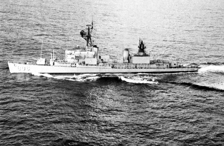 The U.S. Navy destroyer USS Higbee (DD-806) underway in the Western Pacific in 1969.